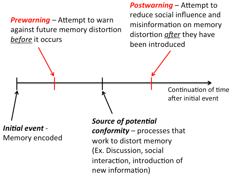 This image shows a timeline of when pre and post warnings are introduced in an attempt to reduce memory conformity